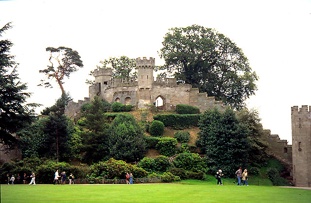 The Mound: Warwick Castle. The mound at Warwick Castle.